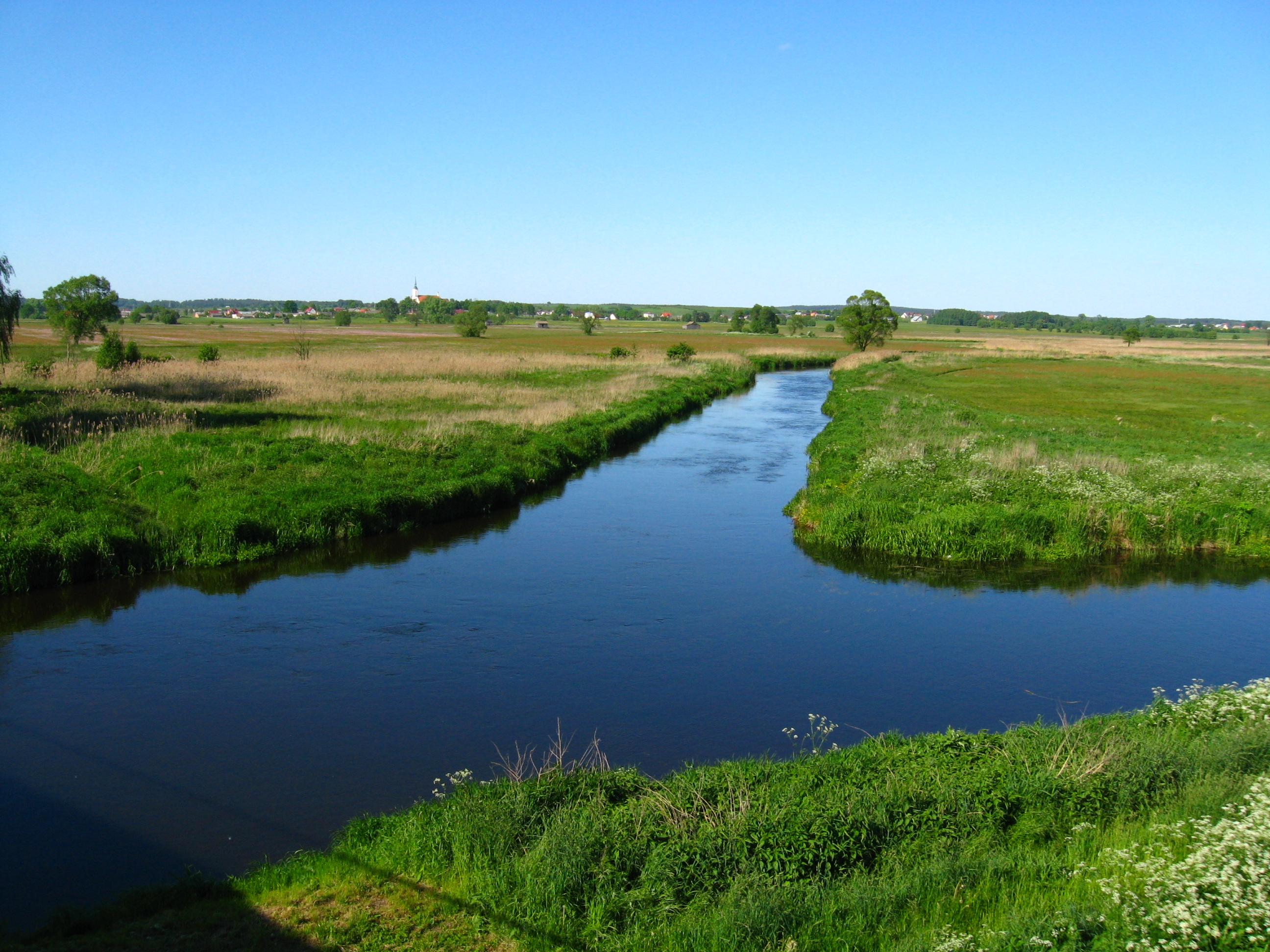 Confluence of Biała river into Supraśl river, near Dzikie village (gmina Choroszcz), seen from bridge on DK65 route.